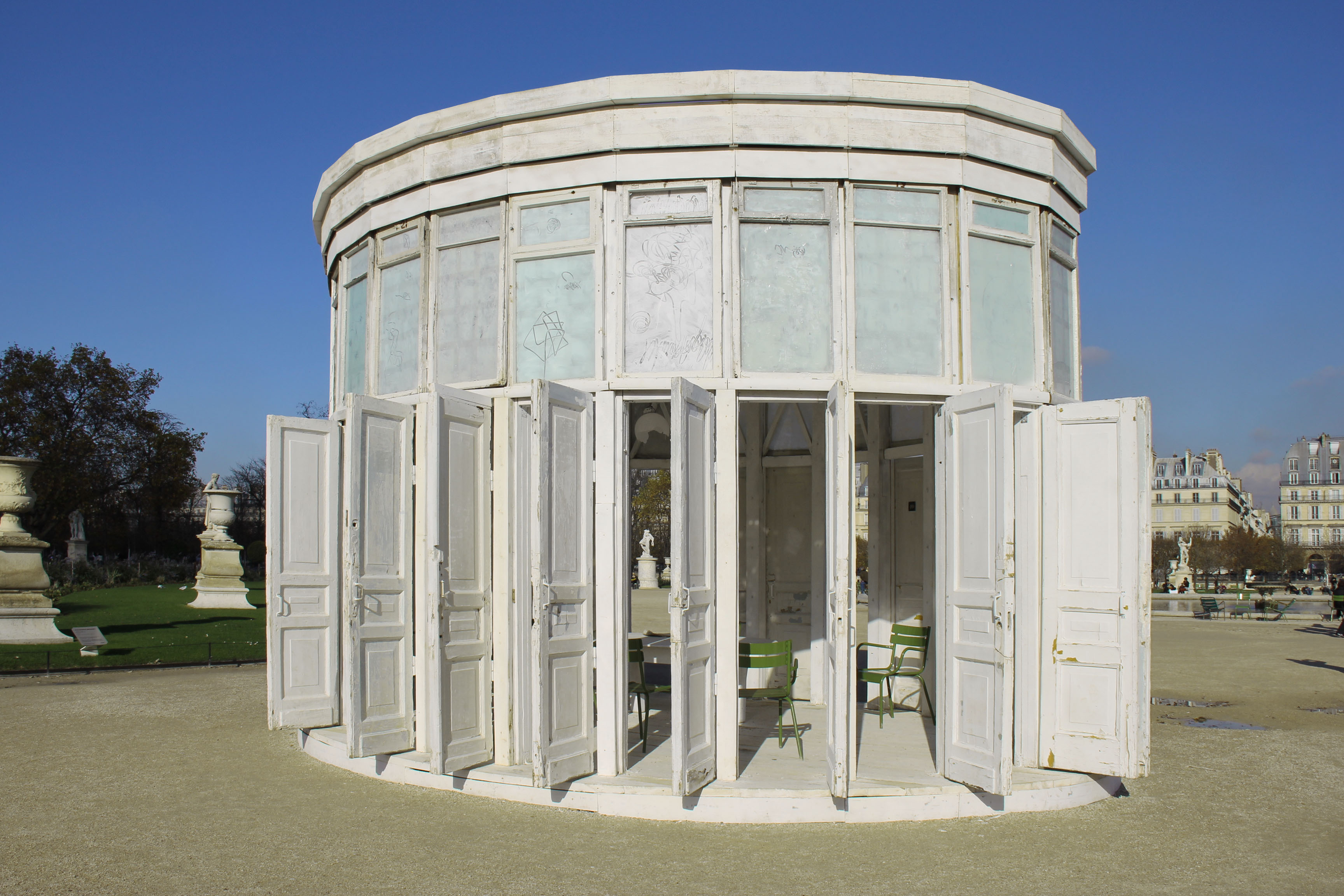 Small storage shed in Jardin des Tuileries in Paris with 8 or 10 white open doors under a beautiful blue sky